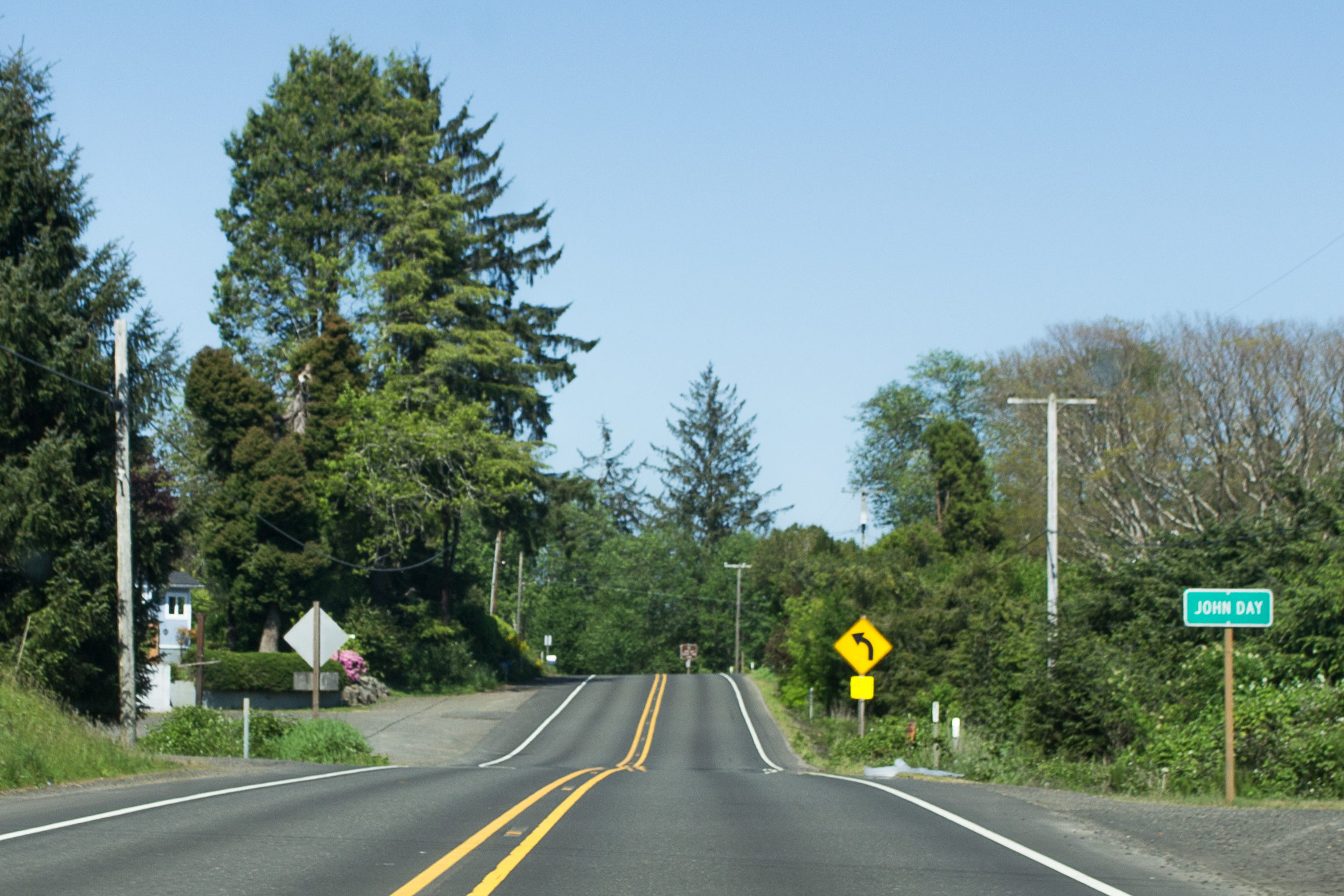 The unincorporated community of John Day in Clatsop County, Oregon